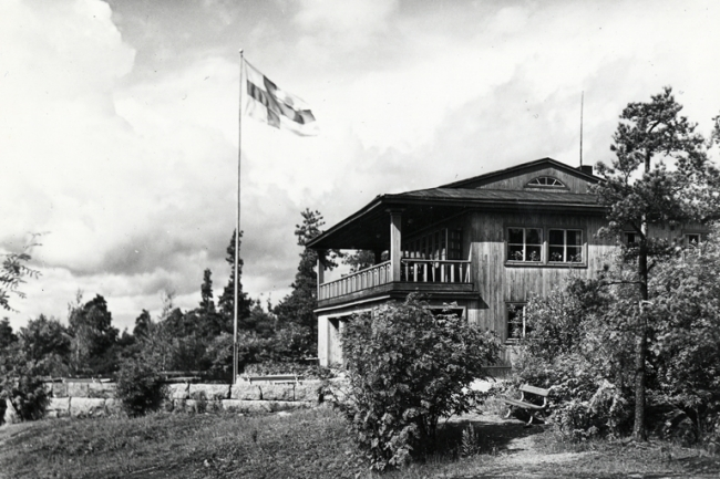 Papulan paviljonki restaurant on the Papula Hill, Vyborg.